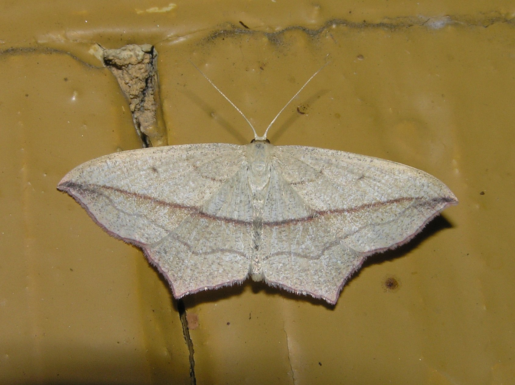 Timandra comae A. Schmidt, 1932 (syn: Calothysanis amata) female, Walgina rdestniak - samica